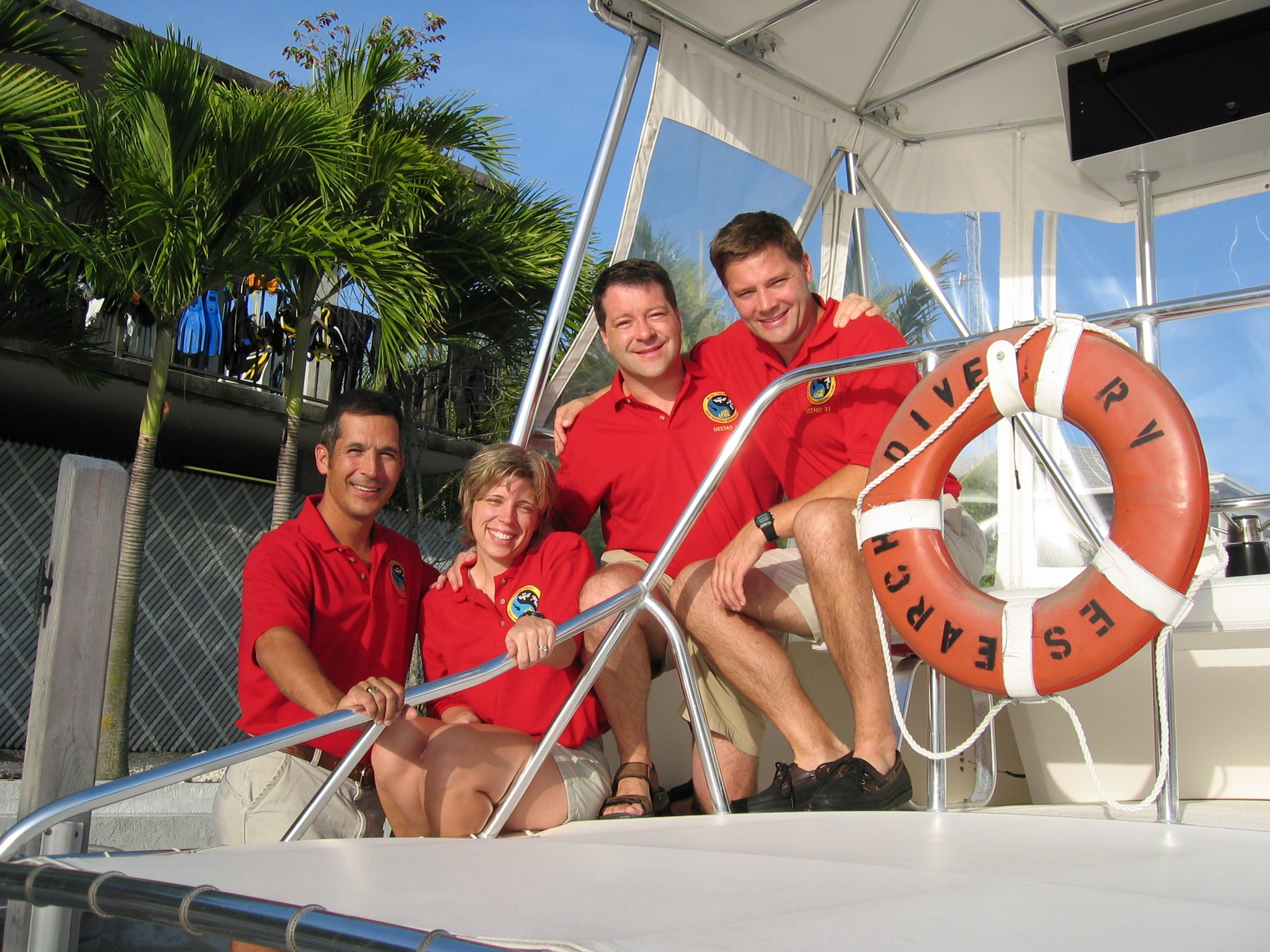 The crew of NASA's NEEMO 6 underwater exploration mission (July 2004). Left to right: NASA astronaut John Herrington, NASA scientist Tara Ruttley, and NASA astronauts Nicholas Patrick and Douglas H. Wheelock. From NASA photo in public domain.